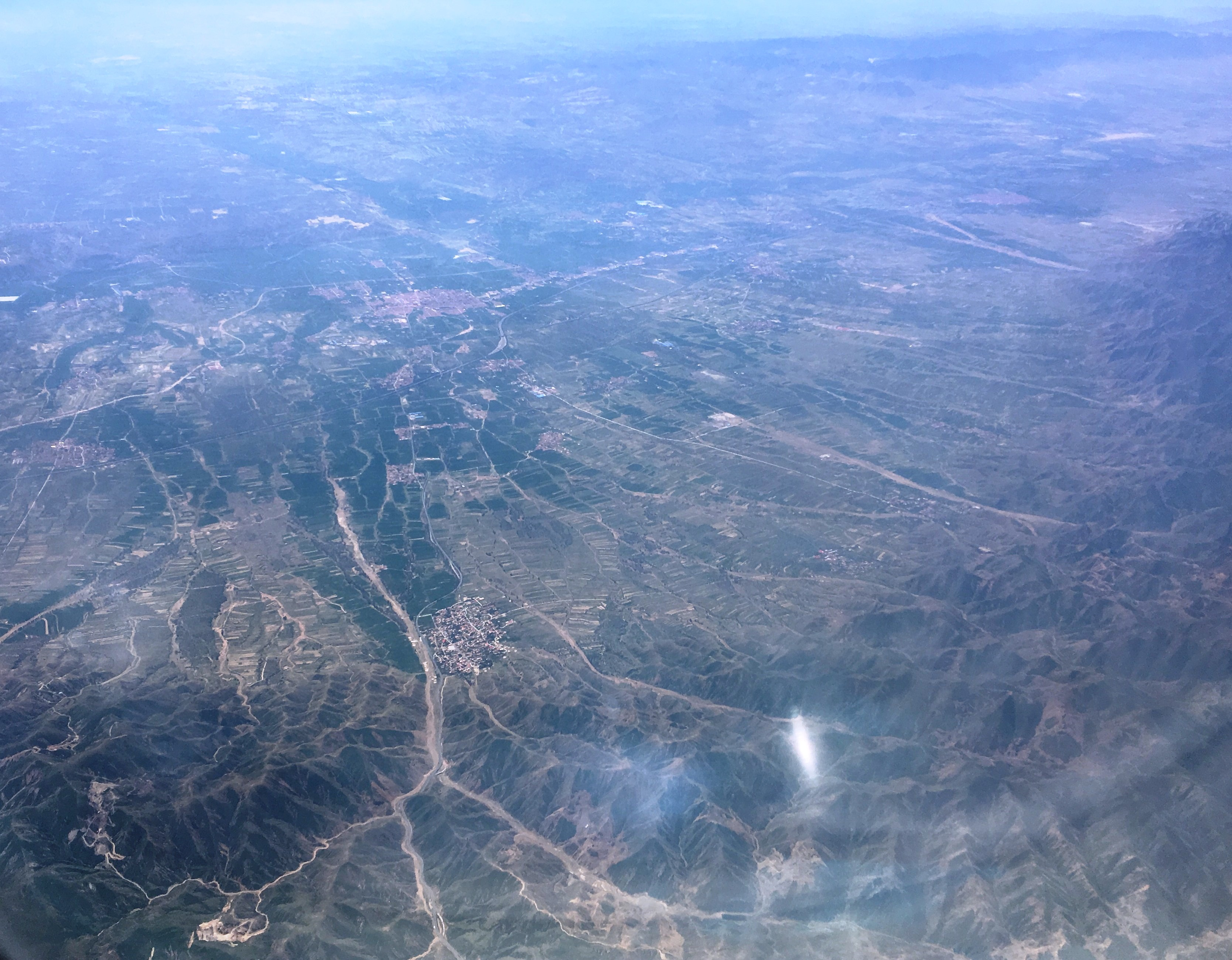 Valley of the Sanggan River, seen from the east towards west. The settlement in the front is Nankocun, the town in the background is Huashaoyingzhen, both in Yangyuan county (northwestern Hebei province).